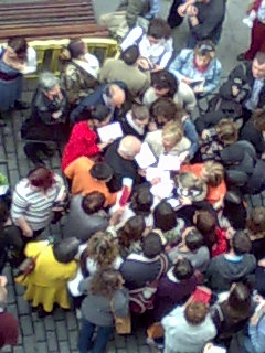 Paulo Coelho, Avilés, Teatro Palacio Valdés, Asturias, El Alquimista